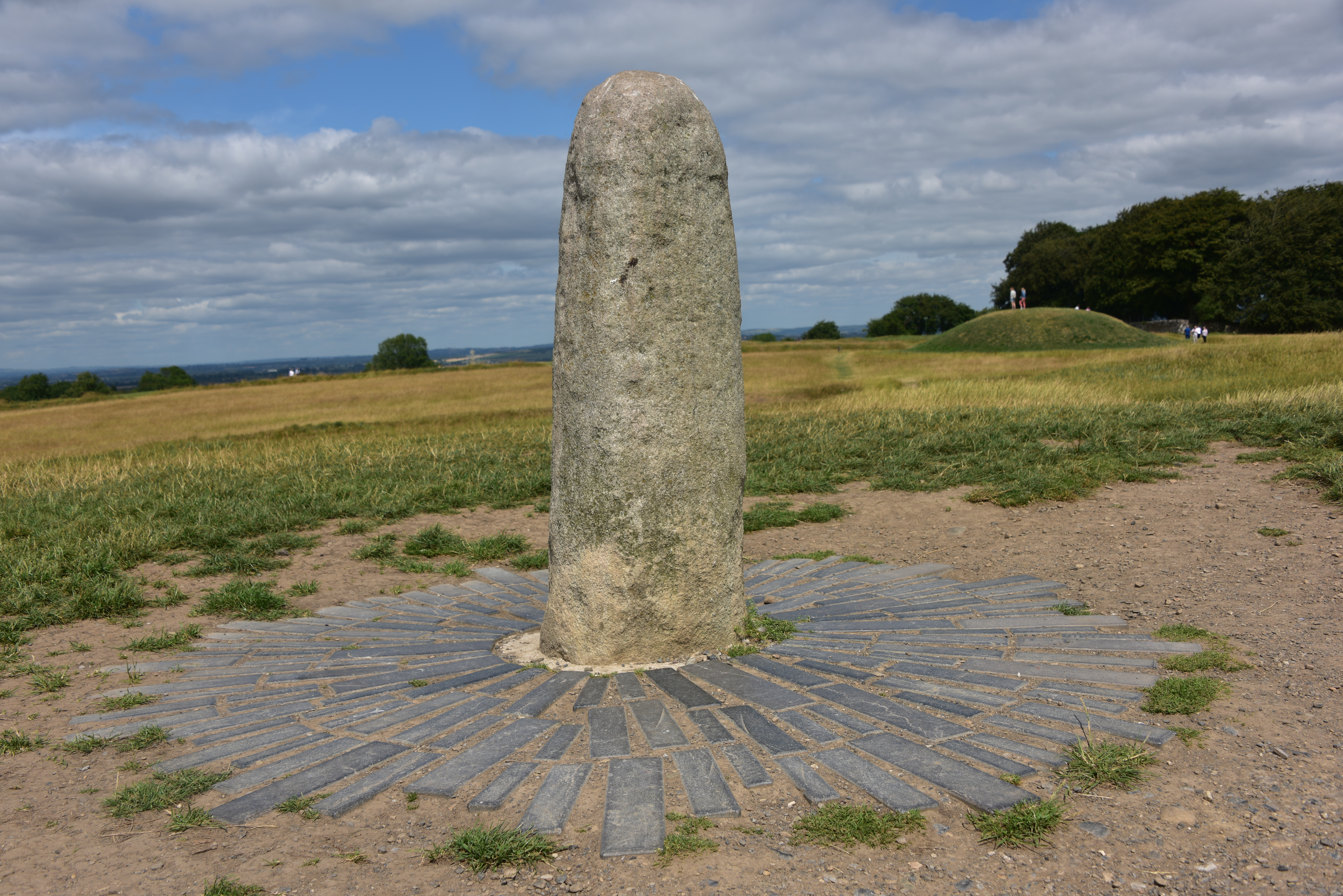 The Stone of Destiny (Lia Fáil) at the Hill of Tara, once used as a coronation stone for the High Kings of Ireland.